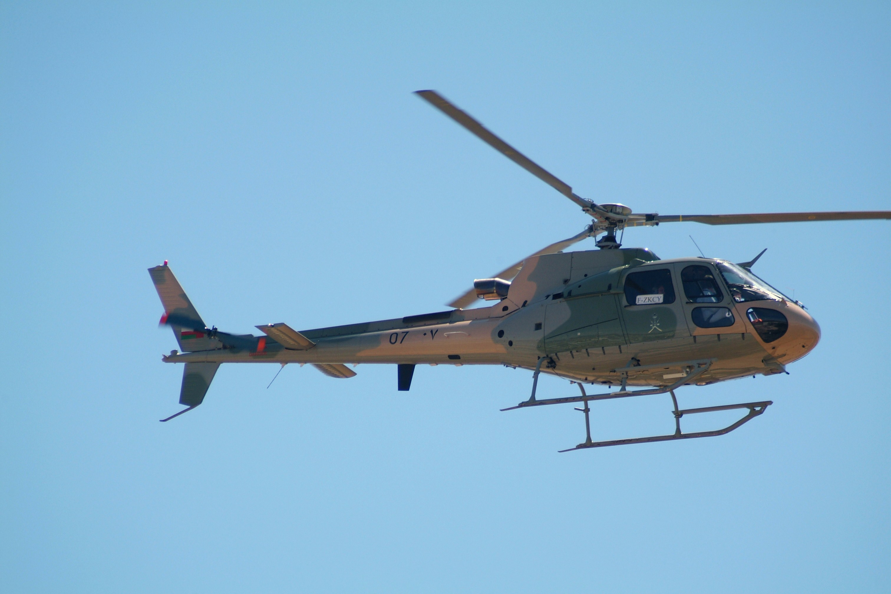 This photo was taken using a Fujifilm FinePix S3Pro. Seen at Marseille-Marignane on th 30th of May 2006 F-ZKCY / 07 an AS.350B of the Police of Oman on test flight